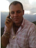 a US State Department photo of Colombian drug dealer Víctor Ramón Navarro Serrano, better known by his alias, Megateo, taken in 2012, according to the tooltip